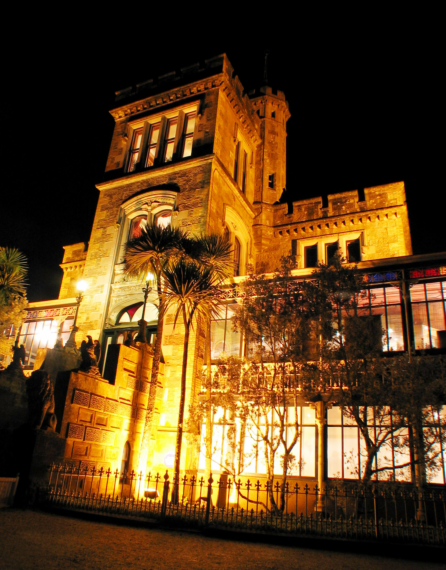 This is the right exterior of Larnach Castle at night, in Dunedin, New Zealand.